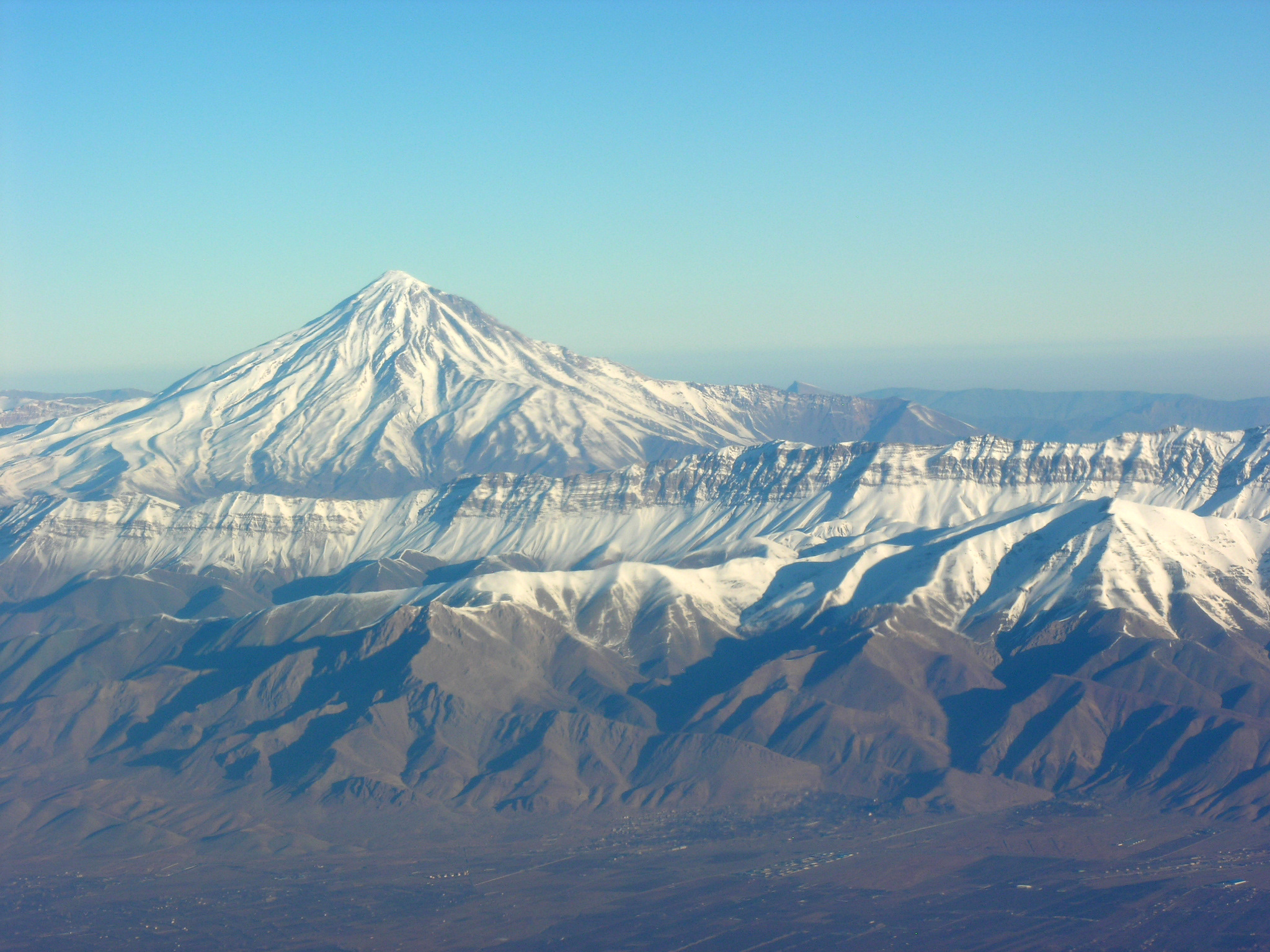 Aerial View of Damavand